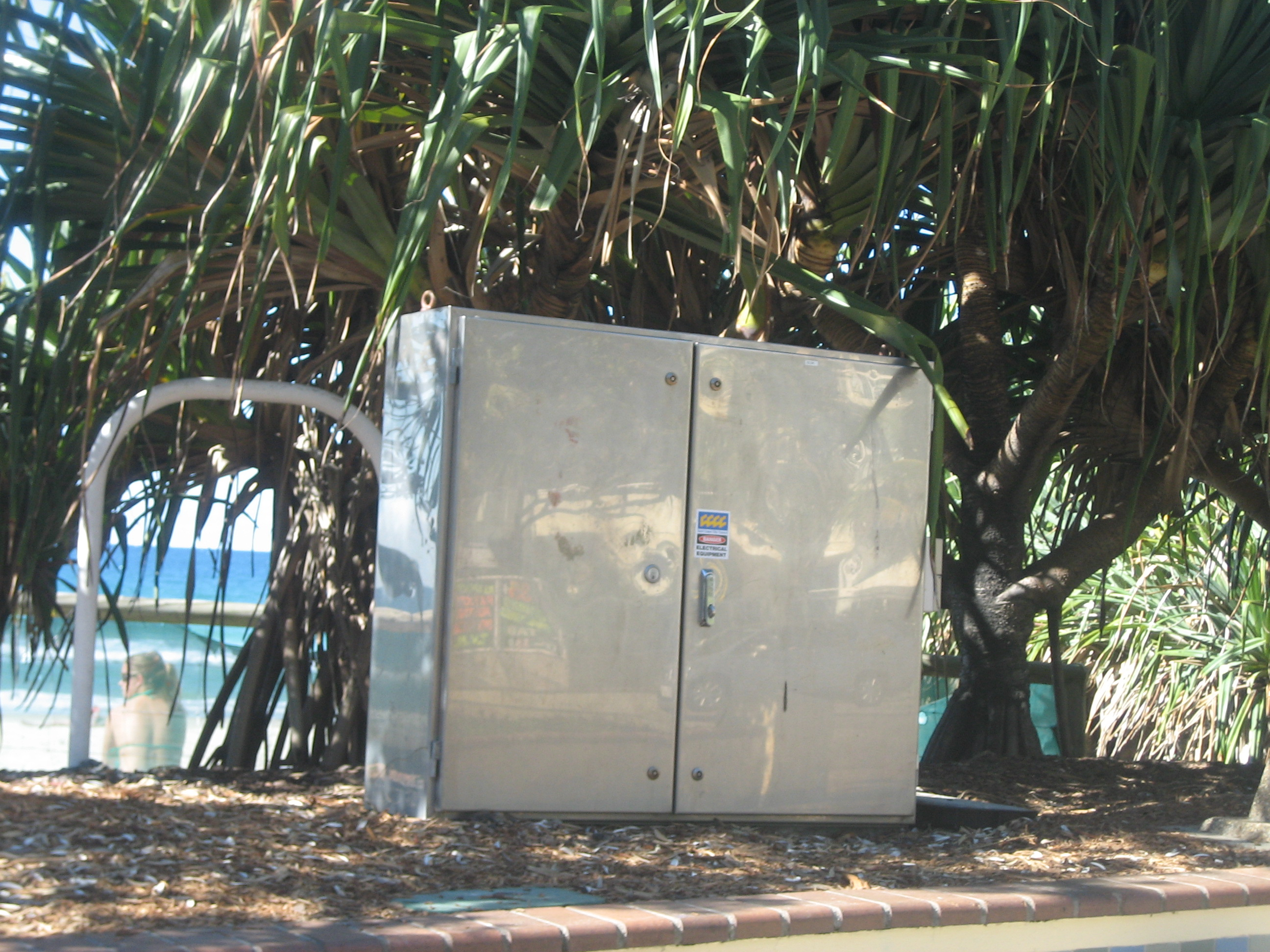 A (customised B&R stainless steel) municipal electrical enclosure in Surfers Paradise, Queensland, Australia.